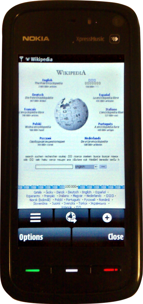 Nokia 5800 XpressMusic showing Wikipedia's main page.